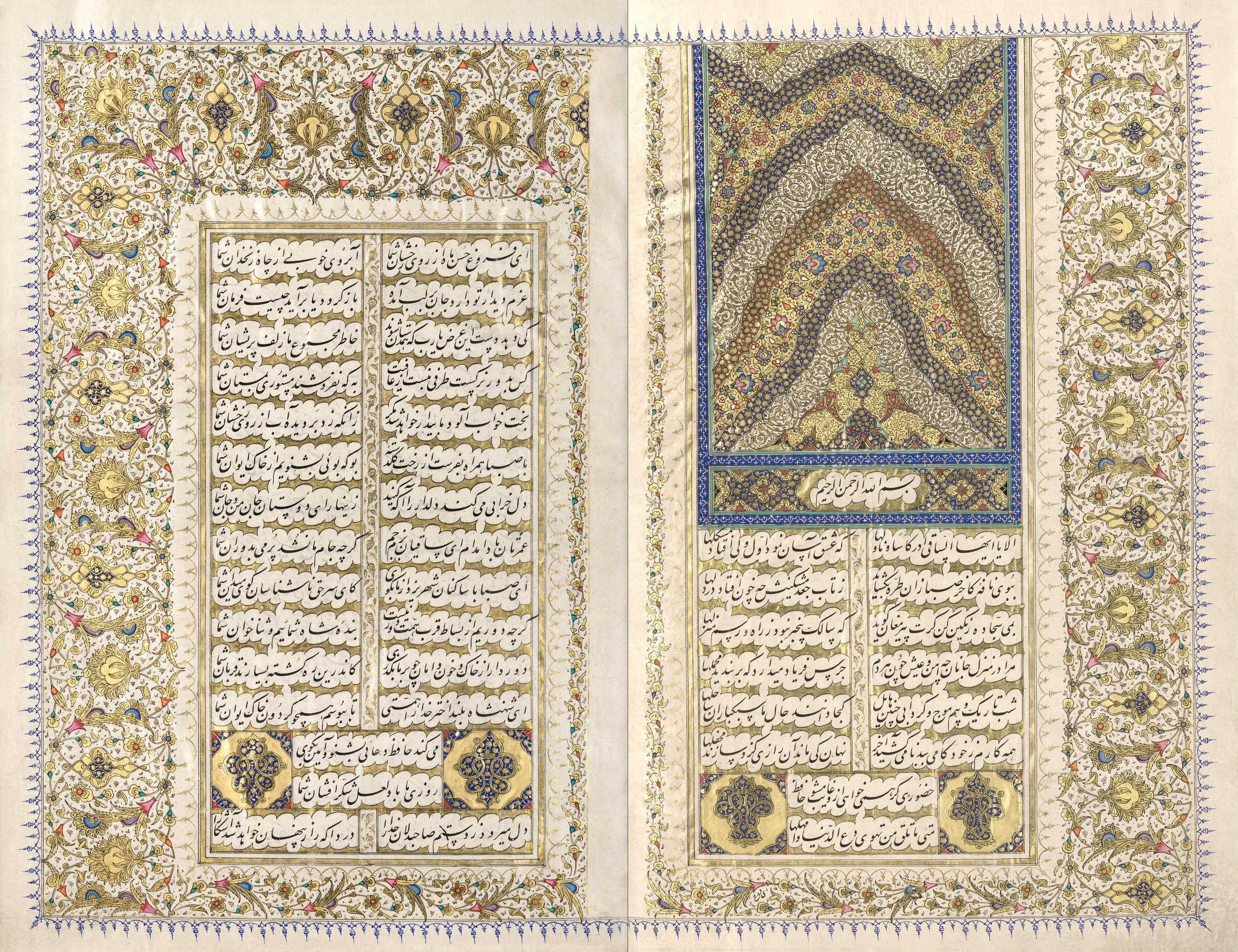 Two pages of the manuscript of Hafez Shirazi's Divan. Preserved in the Treasury of the National Library and Museum of Malek, Tehran